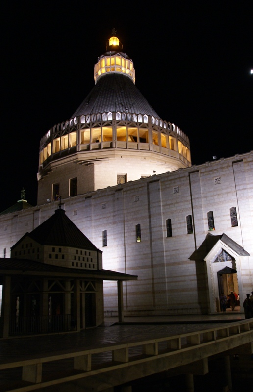 Basilica of the Annunciation, Nazareth, Israel - cupola